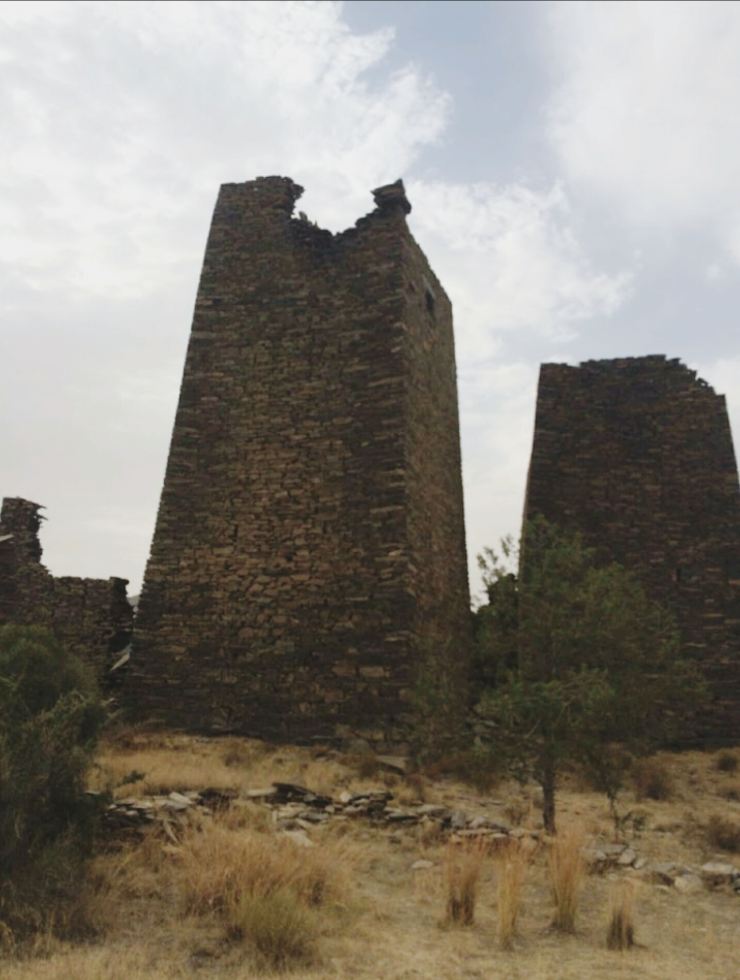 Fort alkamel in bahah Hijaz